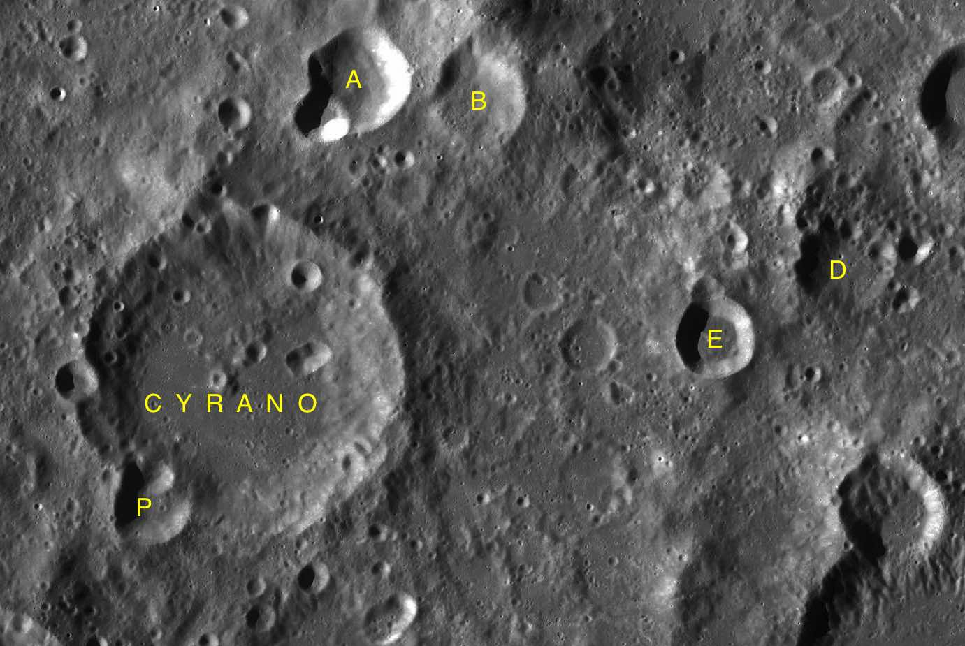 Part of the chart LAC-103 used for the presentation